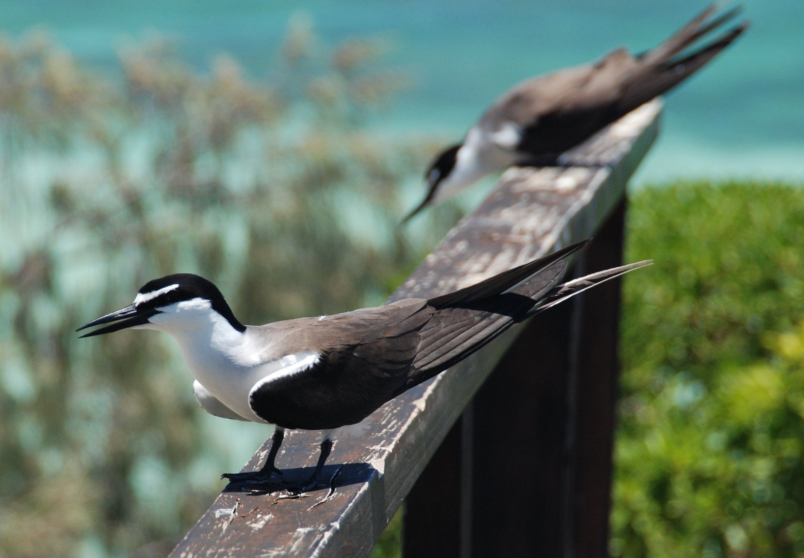 Onychoprion anaethetus, Bridled Tern, New Caledonia. Ilot Signal, off Nouméa, New Caledonia.